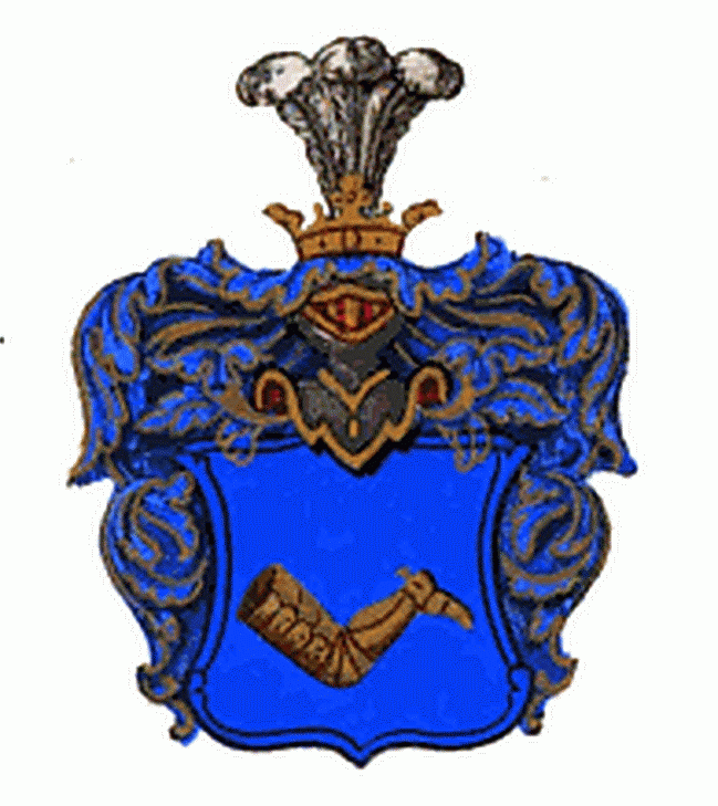 Złotogoleńczyk Coat of Arms by Kasper Niesiecki, 1845